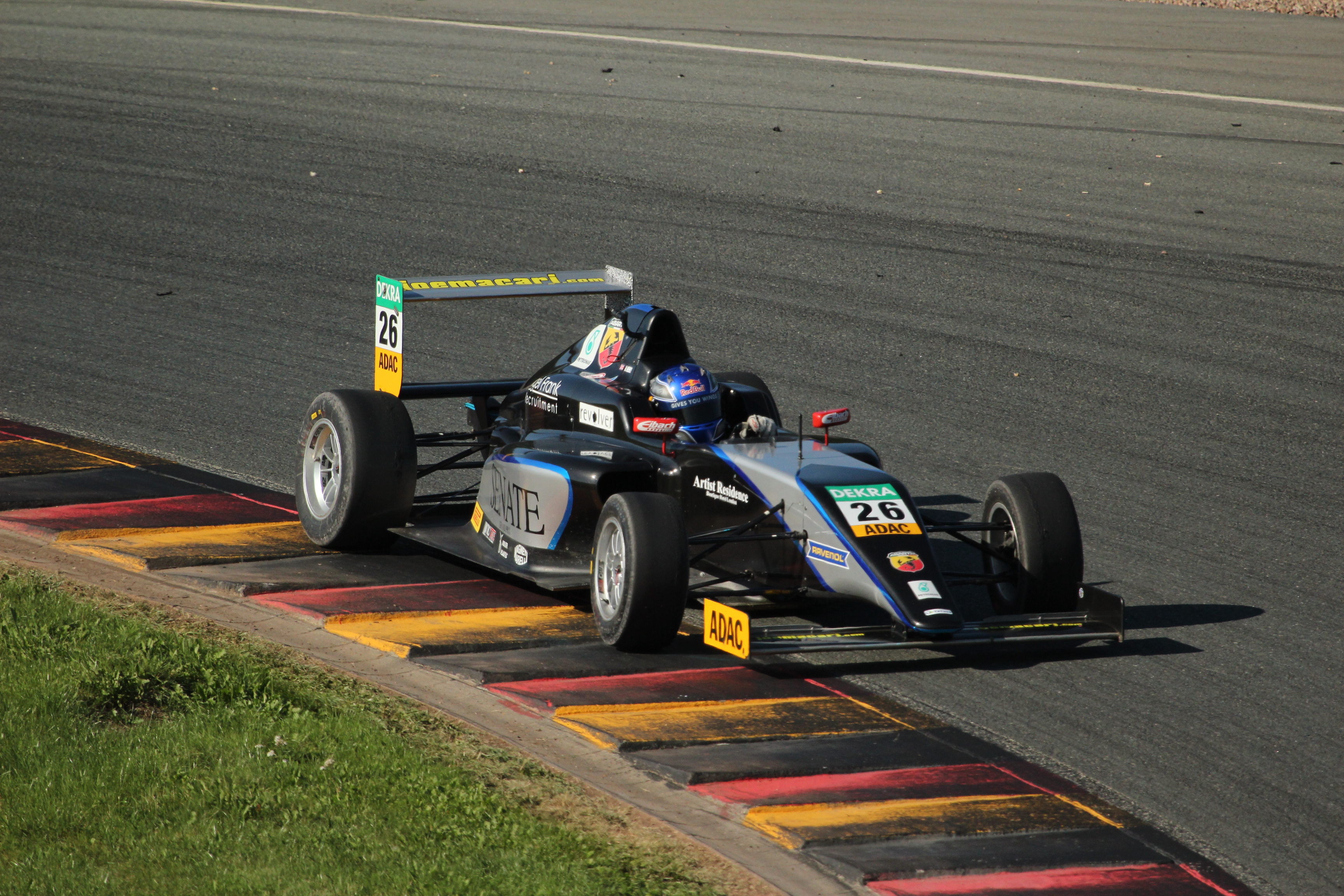 Harrison Newey at the Sachsenring in 2015, German Formula 4 Championship